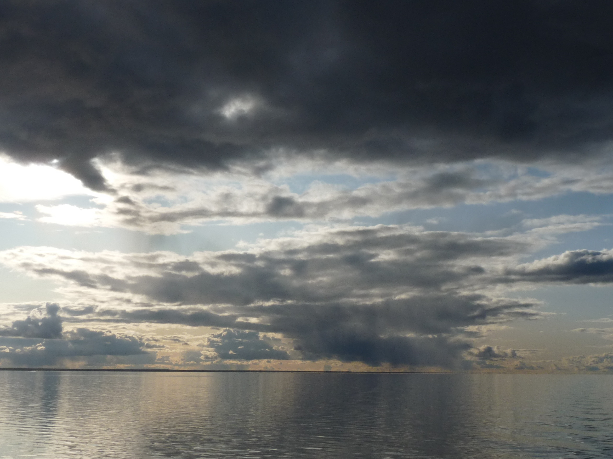 Lake Beloye, Vologda Oblast.